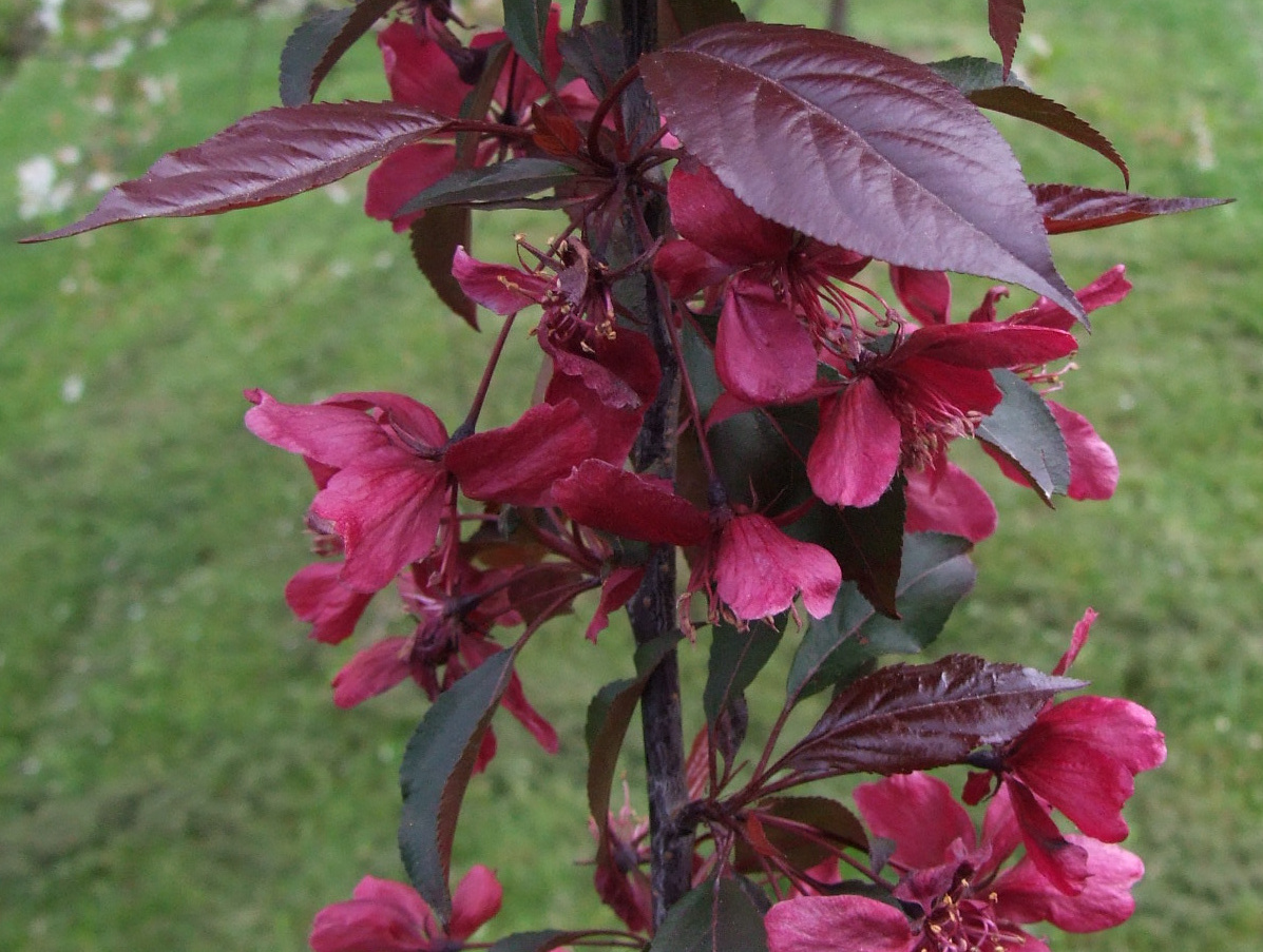 Malus x purpurea 'Royalty'